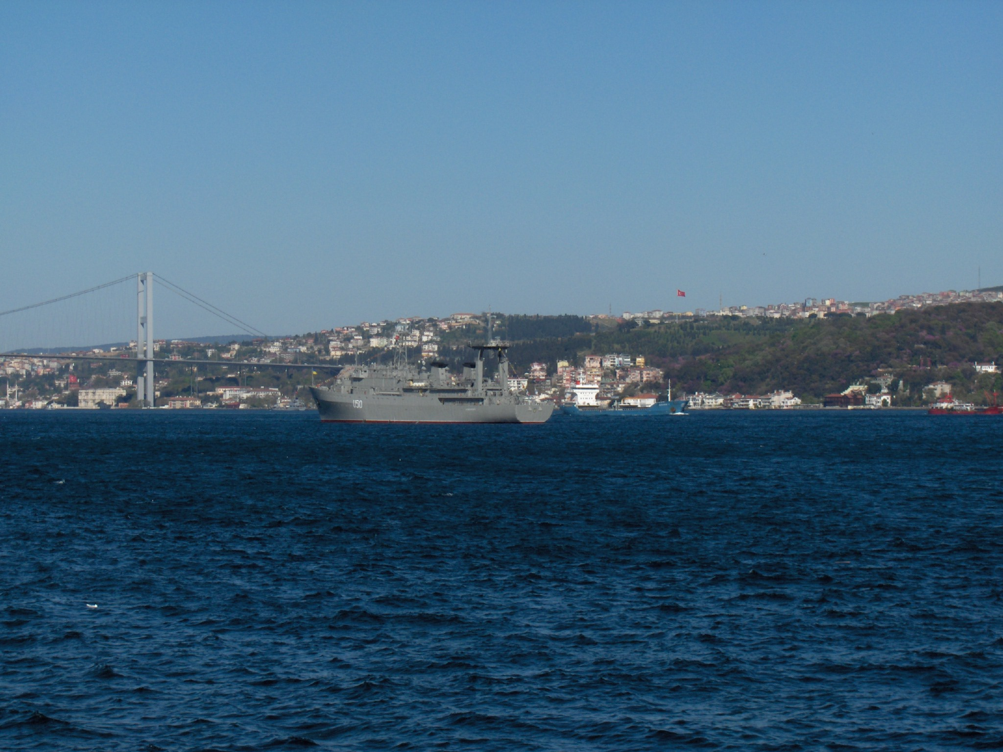 Ukrainian command ship U510 Slavutych at anchor in the Bosphorus; Istanbul, Turkey.